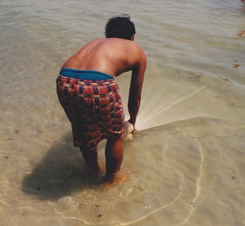 Man with a fishing net in Thailand on the beach